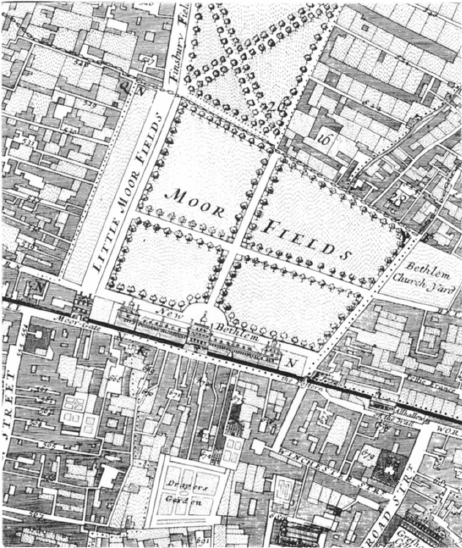 William Morgan, London & c. Actually Surveyed 1682 Detail showing site of the new Bethlem Hospital, built 1676, in Moorfields, North London. The building was designed by Robert Hooke